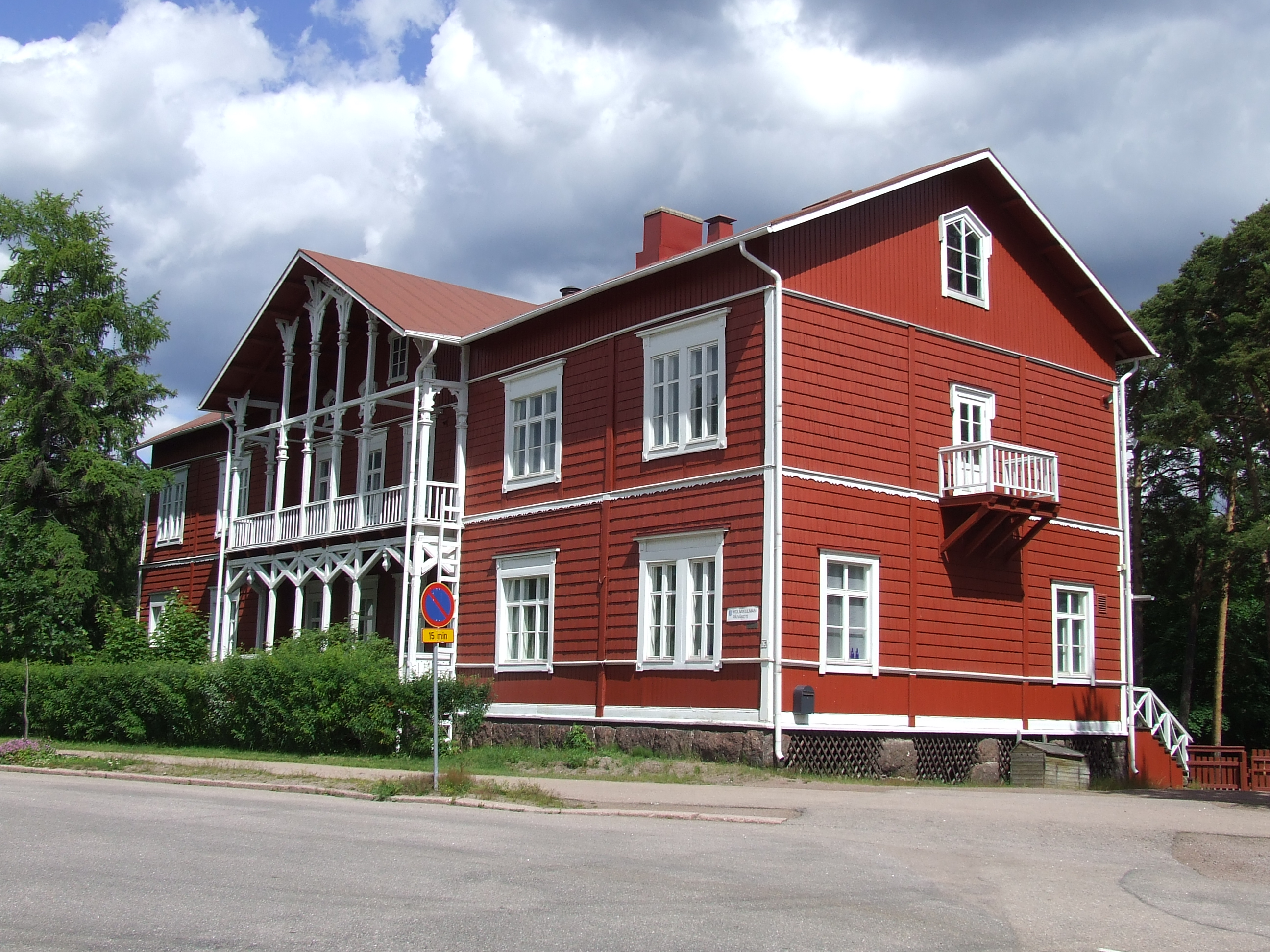 Kalliopytinki building in Kotka, Finland. The building was used as a daycare center and it was burned in July 2013.